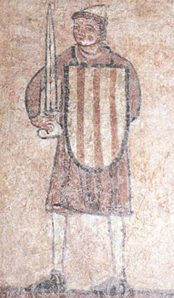 Infantry of Aragona (Spain), mural painting of the XIV Century